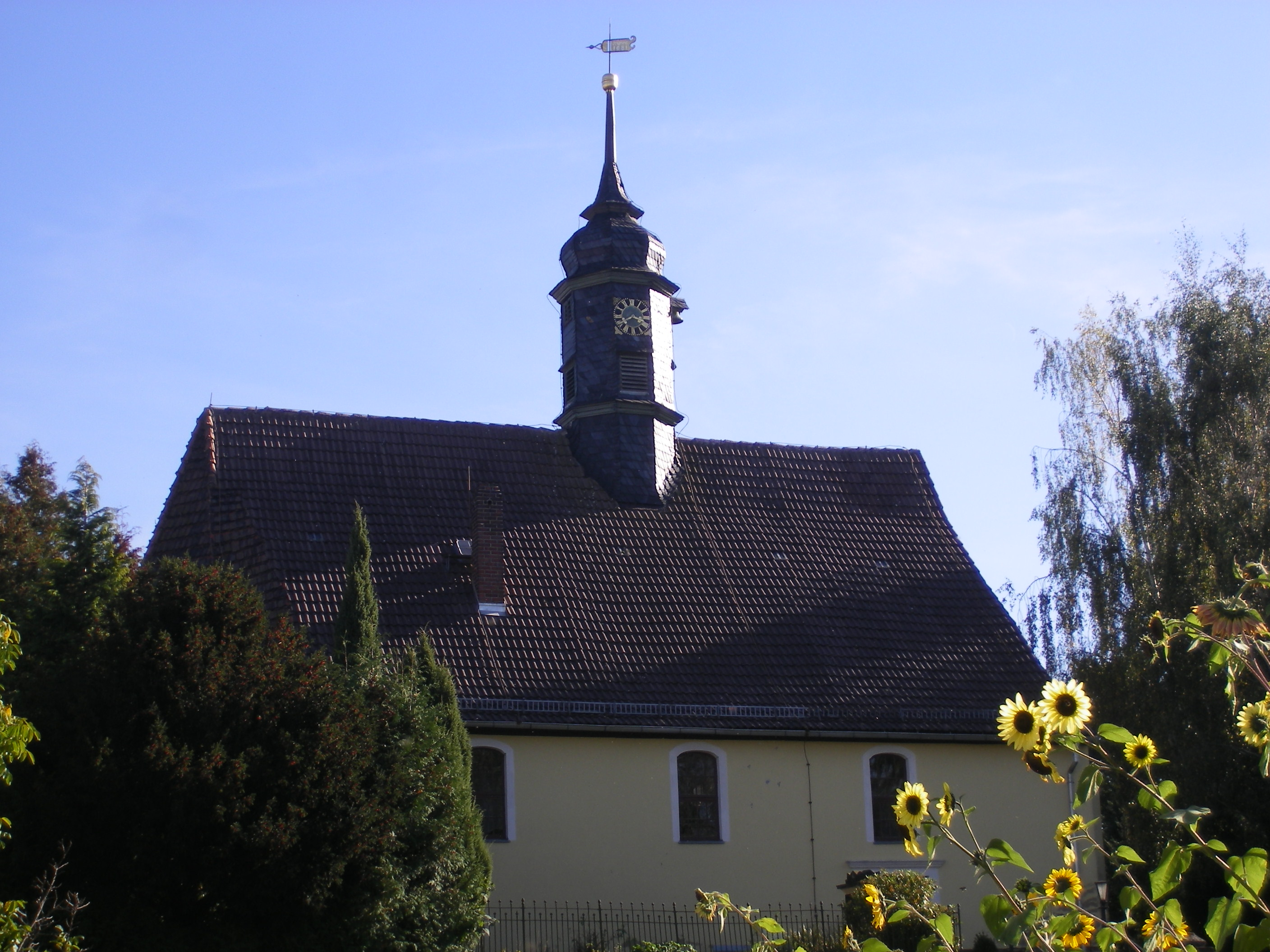 Church in Göllnitz near Altenburg/Thuringia